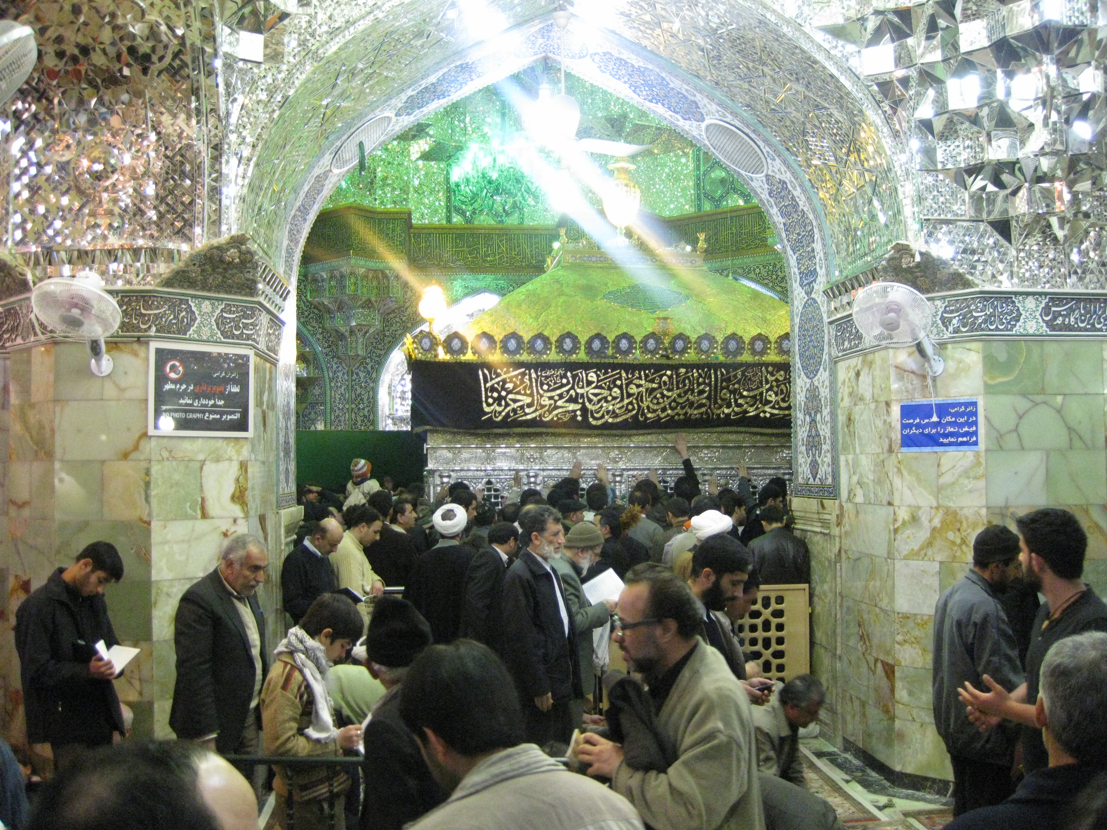 Shrine of Fatimah Ma'sūmah, Qom, Iran.